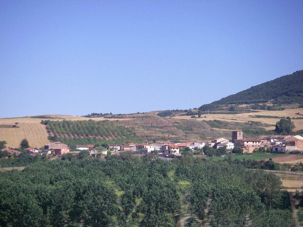 View of Estollo (La Rioja, Spain)